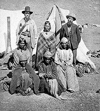 "Winema or Tobey Riddle, a Modoc, standing between an agent and her husband Frank (on her left), with four Modoc women in front." American Indian Select List number 72. Archival Research Catalog (ARC) #533247 [1]